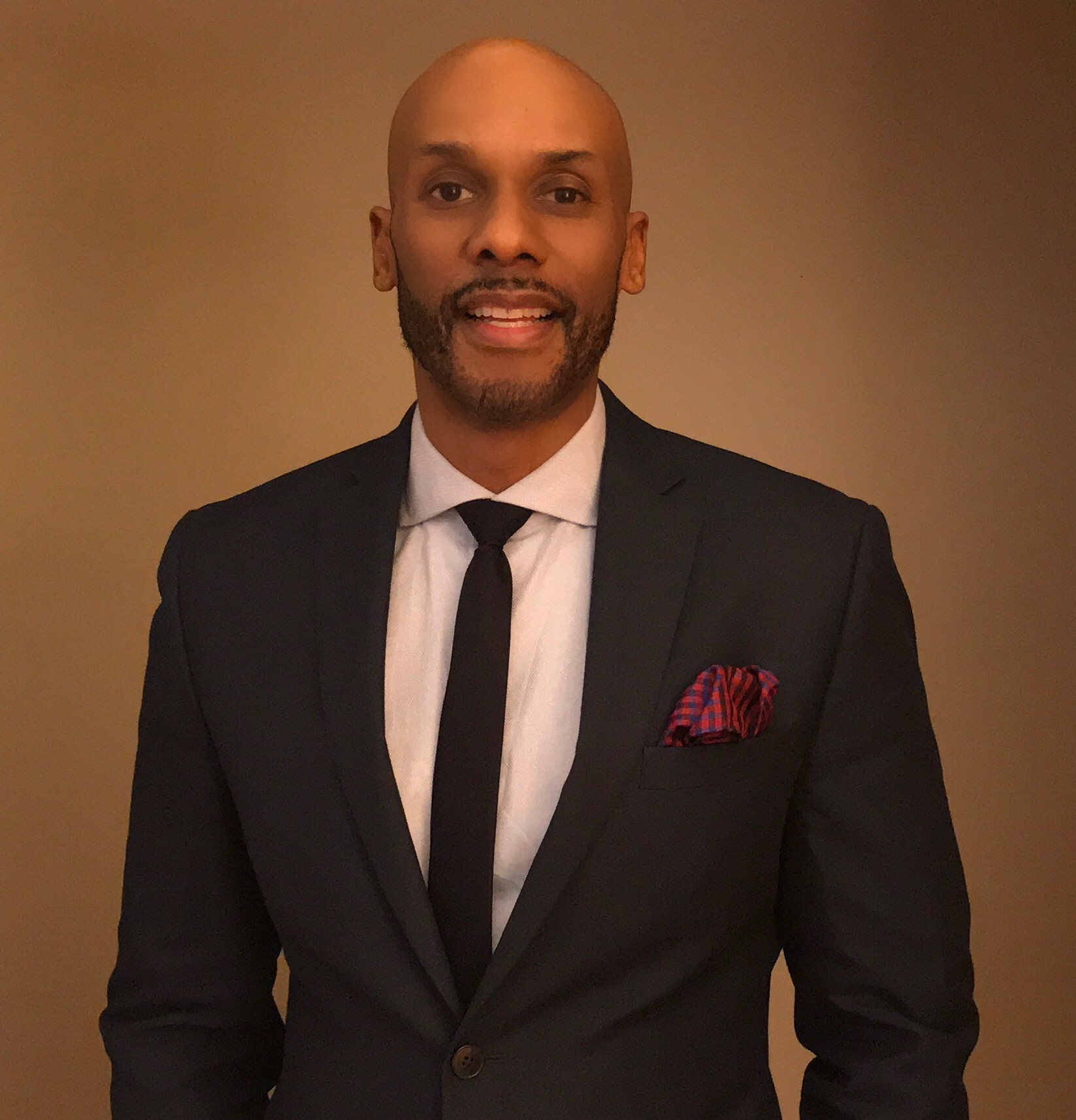 A photo of author and CNN political commentator Keith Boykin